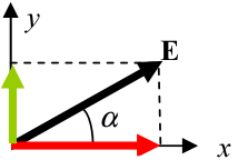 Decomposition of a vector by two components